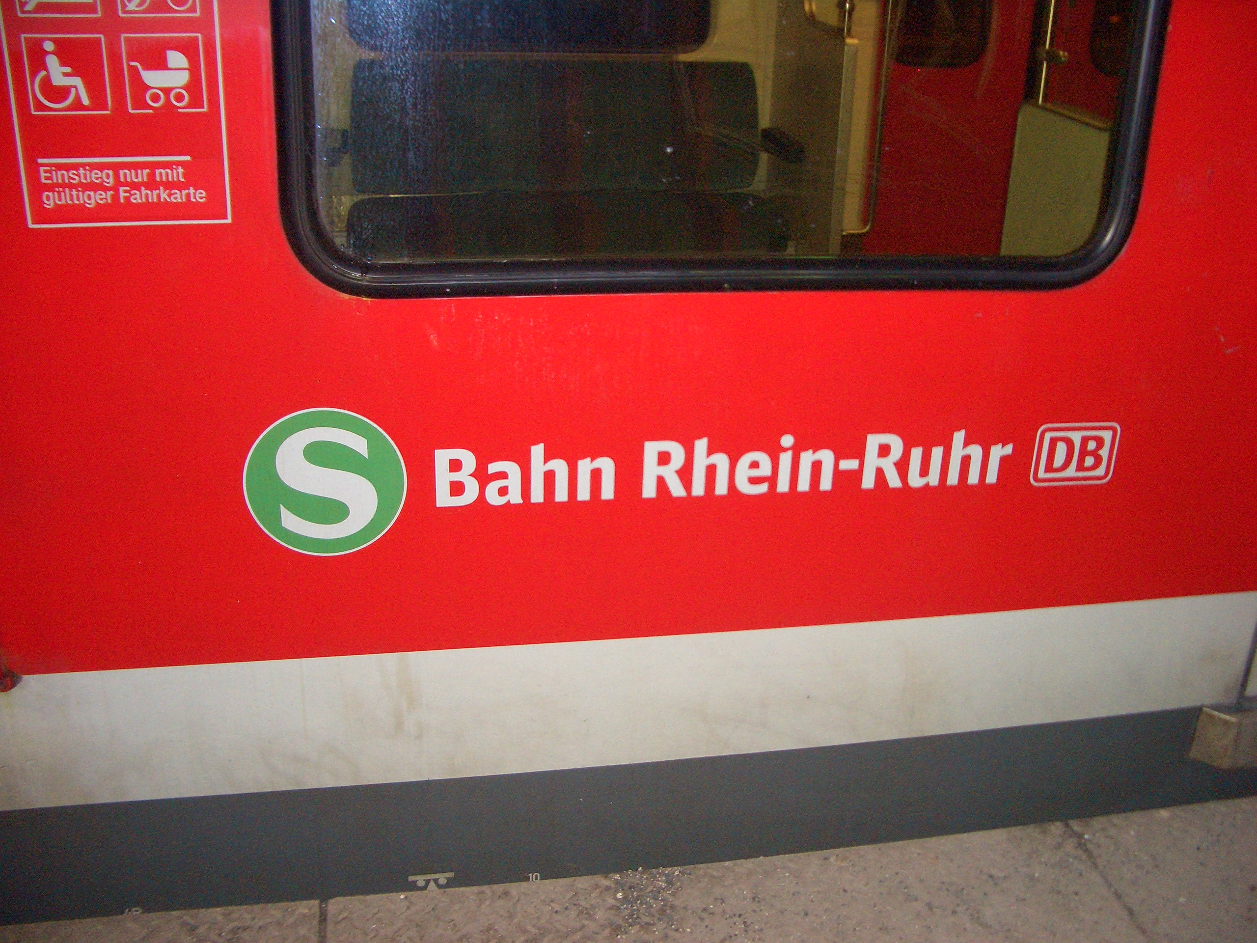 Branding of S-Bahn in Rhein-Ruhr (different to Cologne!)